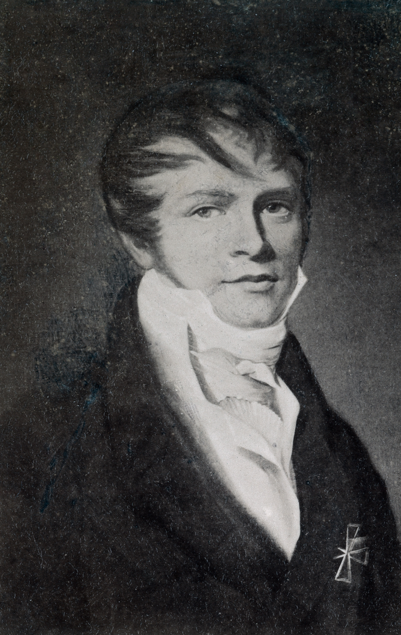 Georg Christian von Wangenheim (1780-1851)